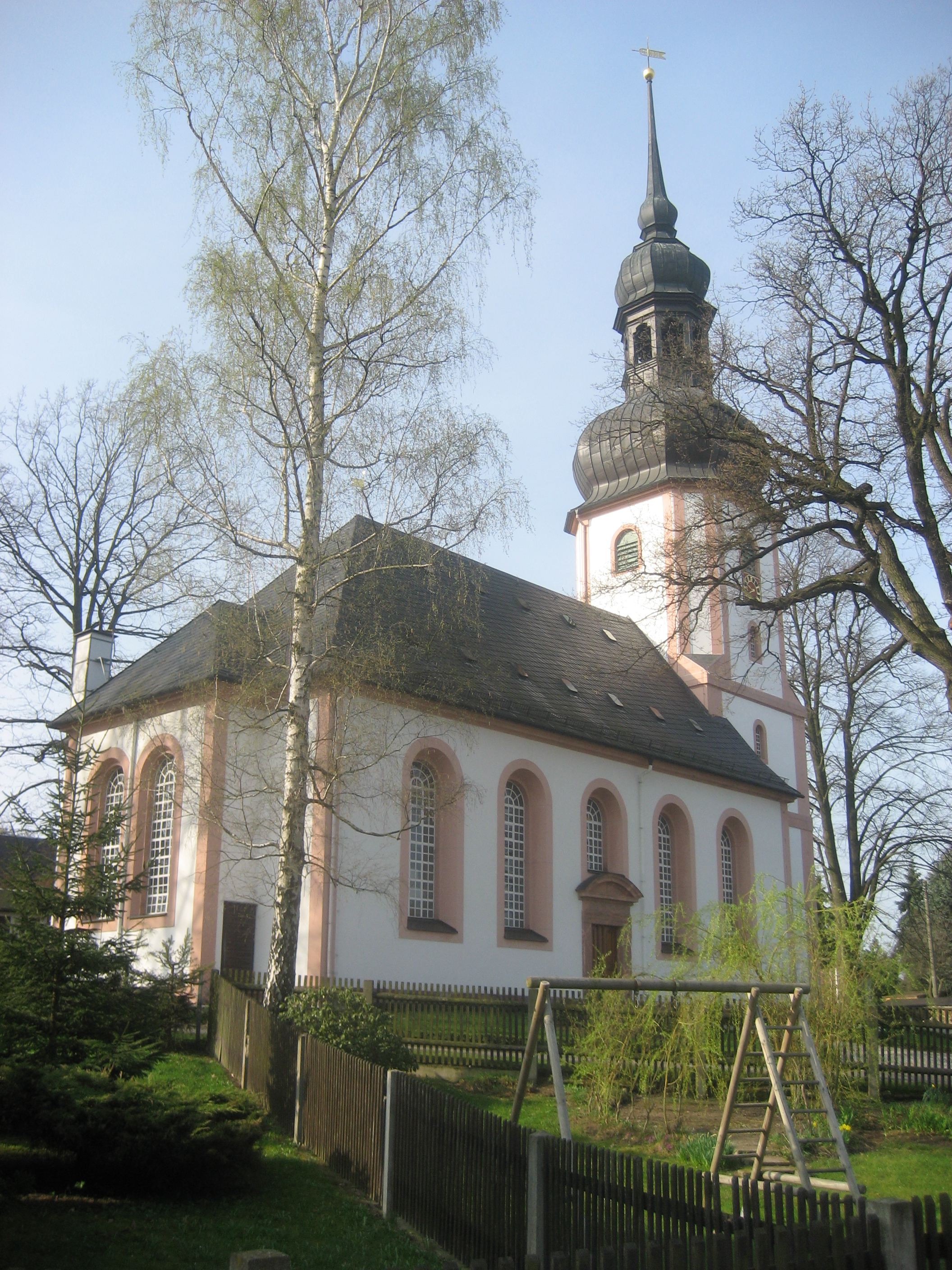 Church Rußdorf (Limbach-Oberfrohna)